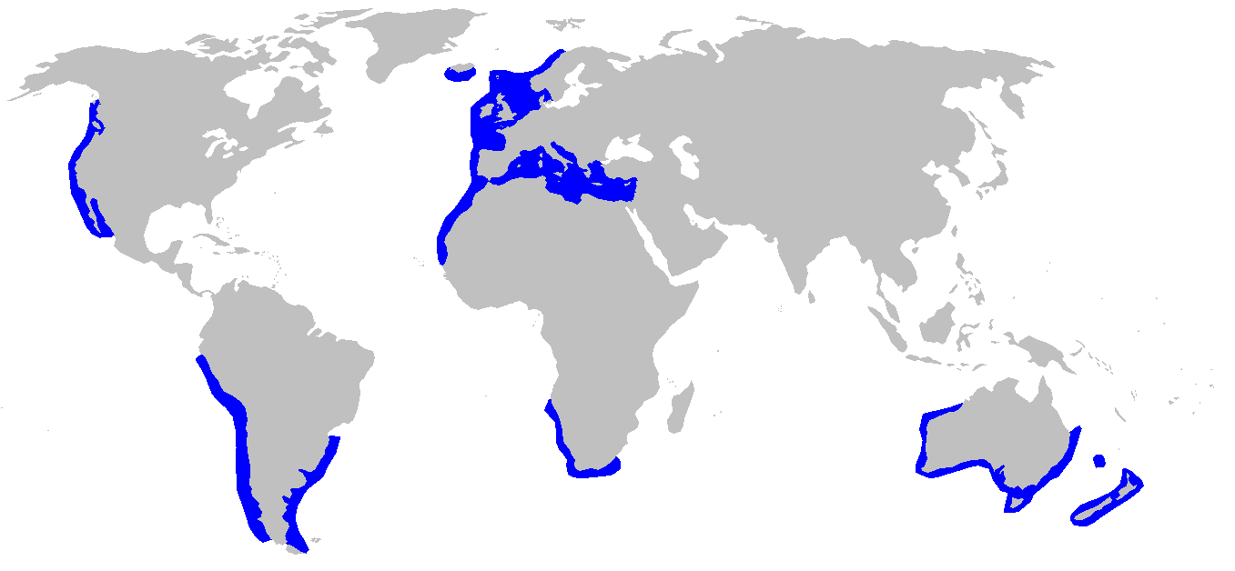 Distribution map for Galeorhinus galeus